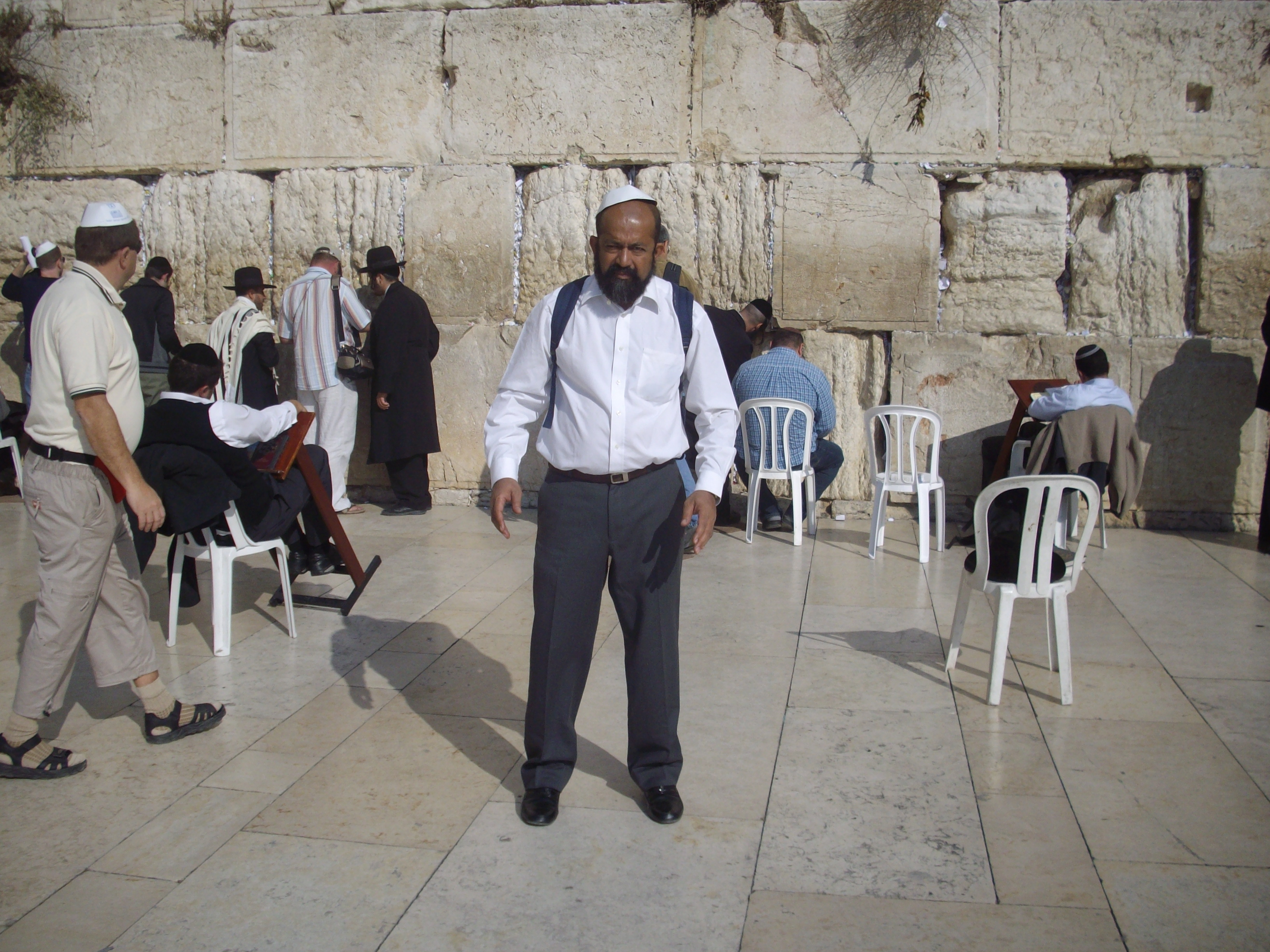 Rudolph.A.Furtado in front of the Wailing wall in Jerusalem.Photograph taken by tourist pilgrim Mr Stephen.Lewis.